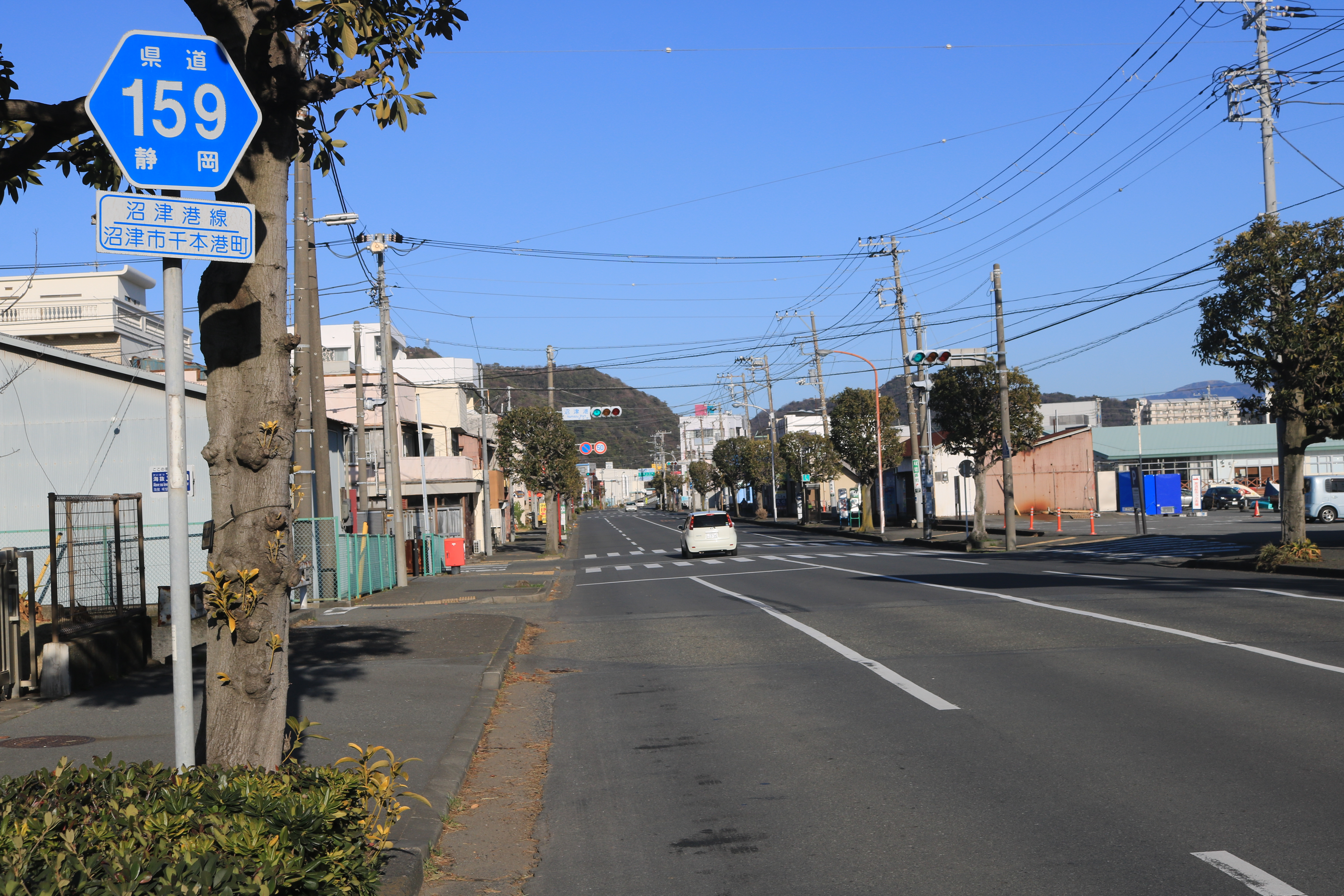 Shizuoka Prefectural Road Route 159 in Senbonminatomachi, Numazu, Shizuoka prefecture, Japan.